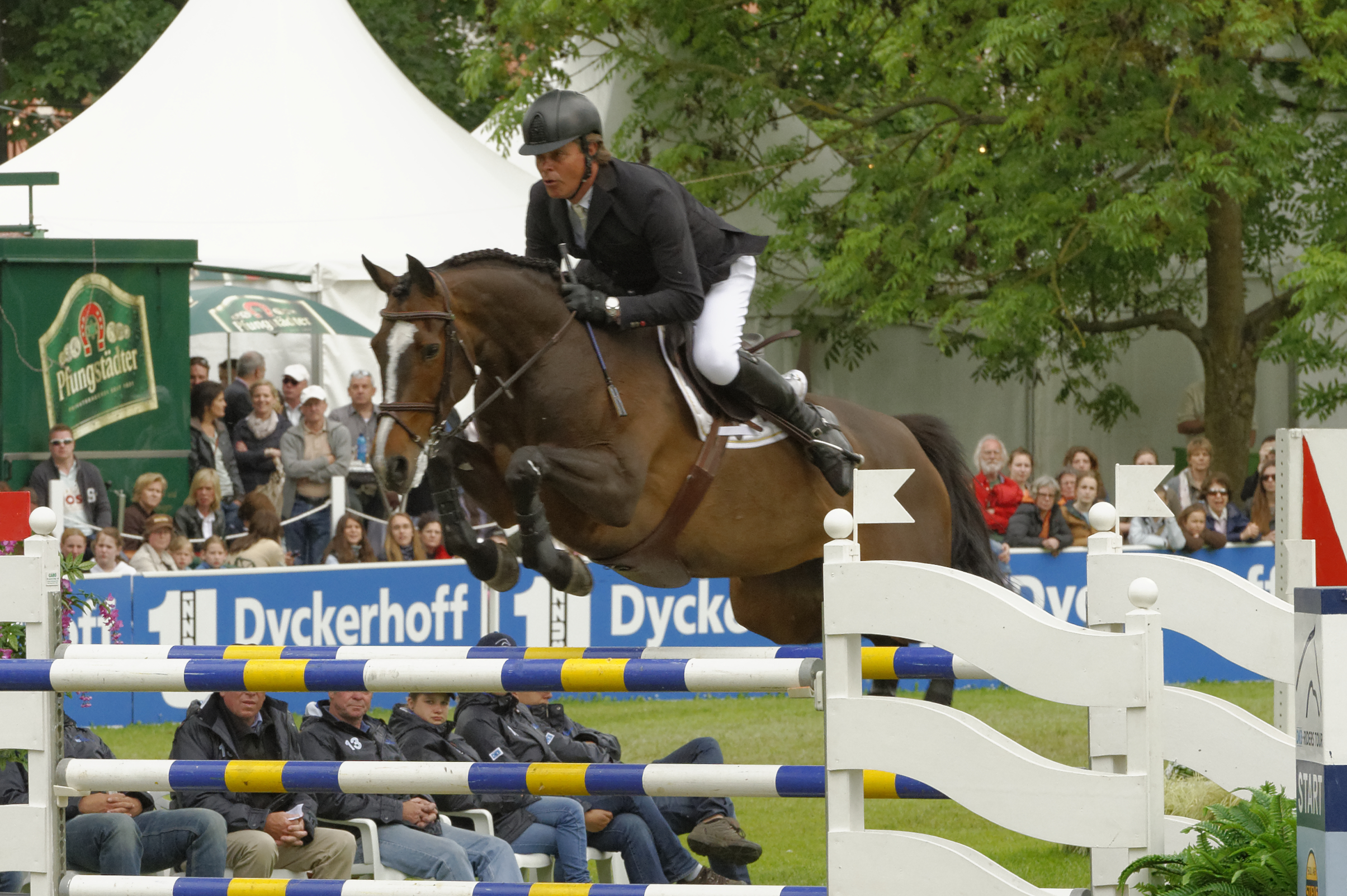 Internationales Pfingstturnier Wiesbaden 2013 The making of this document was supported by the Community-Budget of Wikimedia Germany.